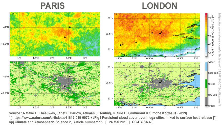 Urban artificial cloudiness induced by urban warming (bubble heat) and particular pollution for Paris and London 2019, from a recent study : Natalie E. Theeuwes, Janet F. Barlow, Adriaan J. Teuling, C. Sue B. Grimmond & Simone Kotthaus (2019) Persistent cloud cover over mega-cities linked to surface heat release ; npj Climate and Atmospheric Science 2, Article number: 15 |Publié le 24 Mai 2019 published in open licence CC-BY-SA 4.0Summer cloud cover over Paris and London regions. a, d The mean (circles) and median (squares) with the interquartile ranges (IQR, error bars) of the differences in cloud fraction between all urban pixels and all low-plant pixels (light green) and all forest pixels (dark green) for a Paris and d London. Only HRV pixels with 100% of one land cover type are analysed.b), e) Afternoon (15:00–17:30 UTC) mean cloud fractions for b) Paris and e) London. c), f) The CORINE land cover (250 m resolution)53 for c) Paris and f) London. Data for days with a predominantly cumulus cloud class (see Methods) for 2009–2018 in May, June, July and August. (e), f) dots) Locations of London and Chilbolton sites, (b), c), e), f triangles) airport sites used to select cumulus cases (Paris: ndays = 563, London: ndays = 549)